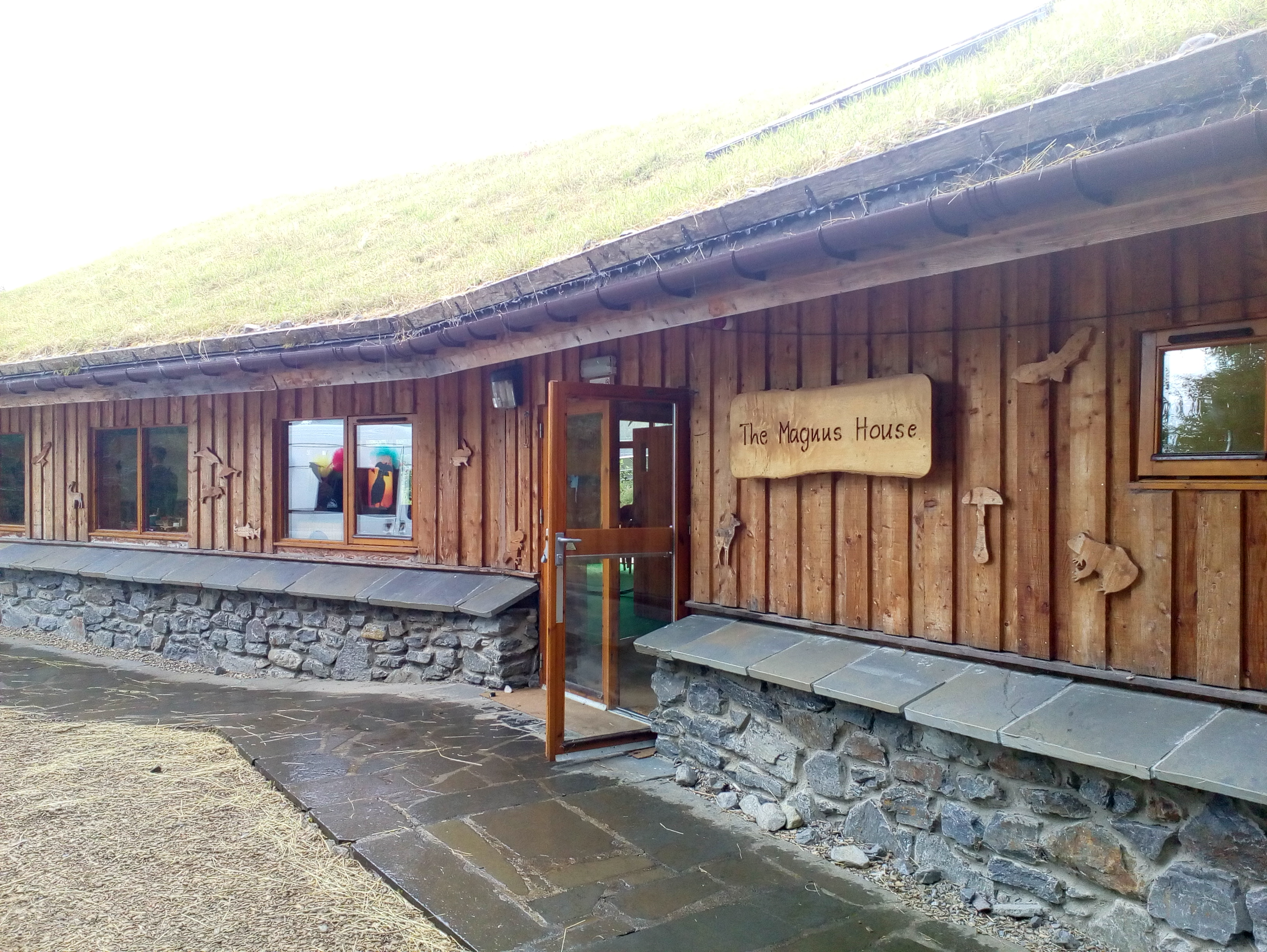 The Magnus House near Struy remembers Magnus Magnusson and nature centre